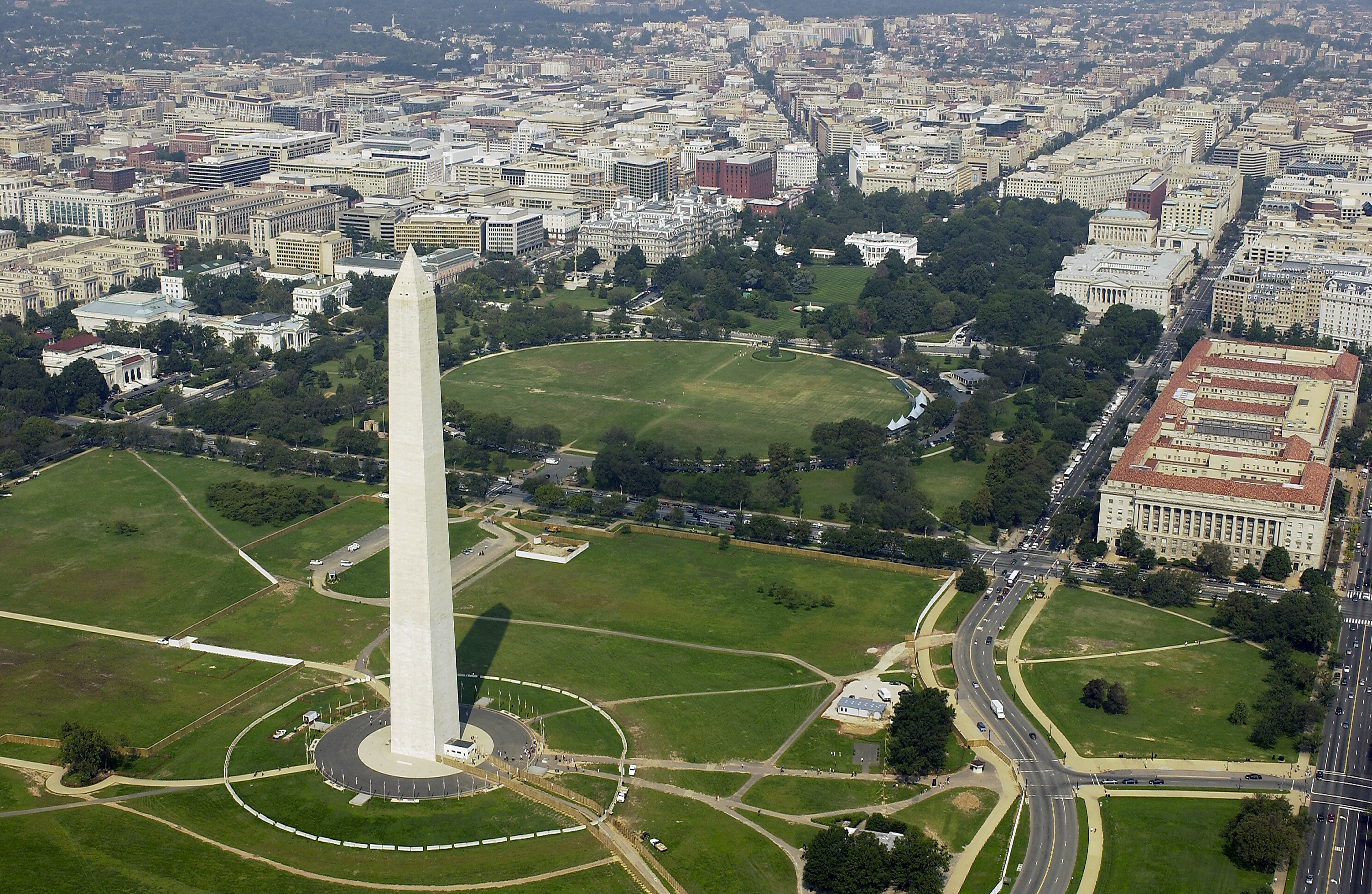 Washington, D.C. (Sept. 26, 2003) - Aerial view of the Washington Monument with the White House in the background.